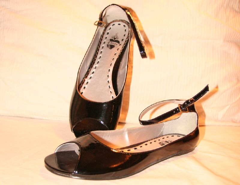 From Chicas. Waiting for warmer weather...